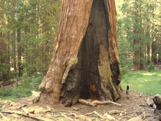 The General Grant tree in Kings Canyon National Park, photographed in July 2007.